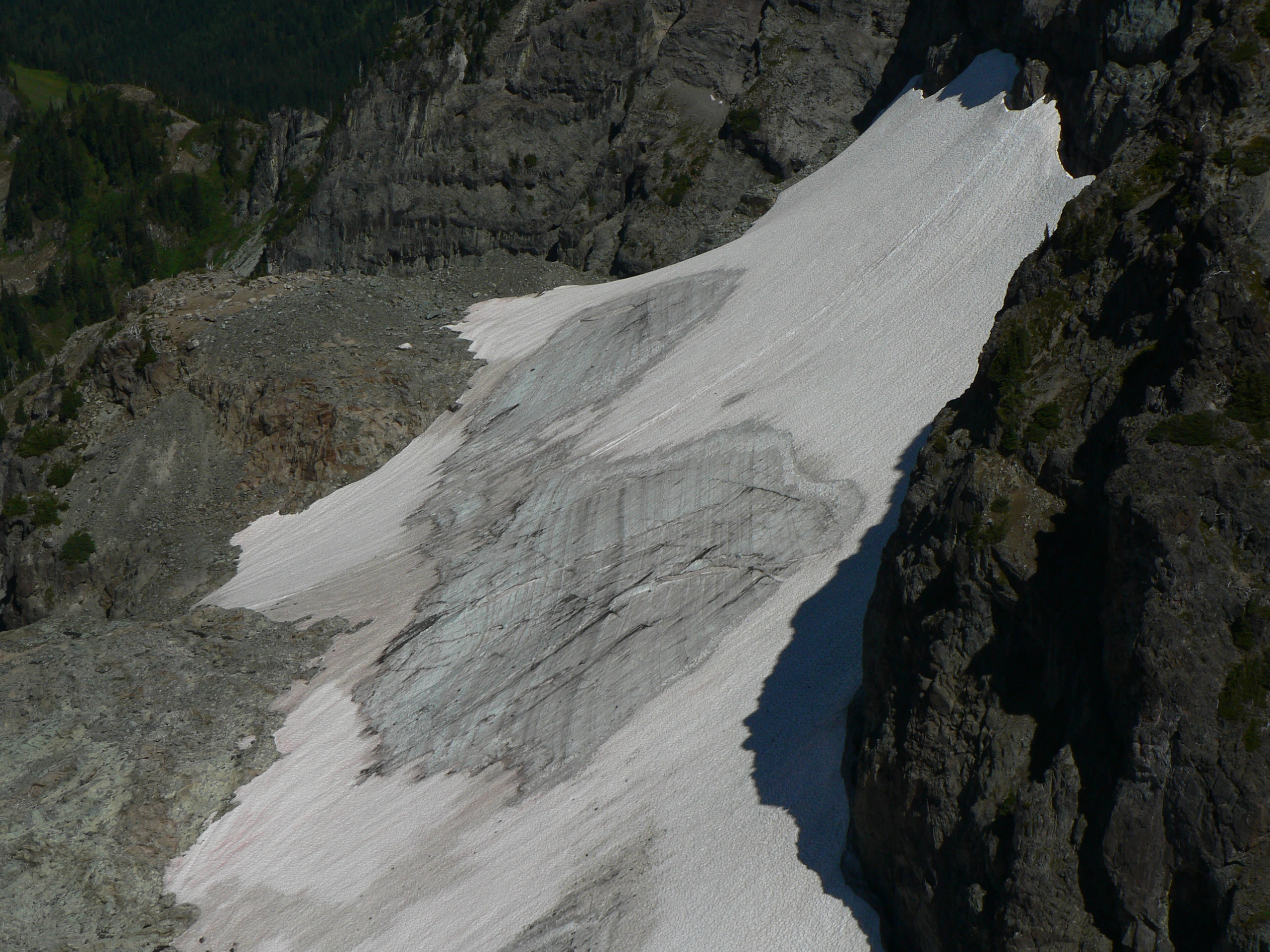 Sarvent Glacier with annual bands visible